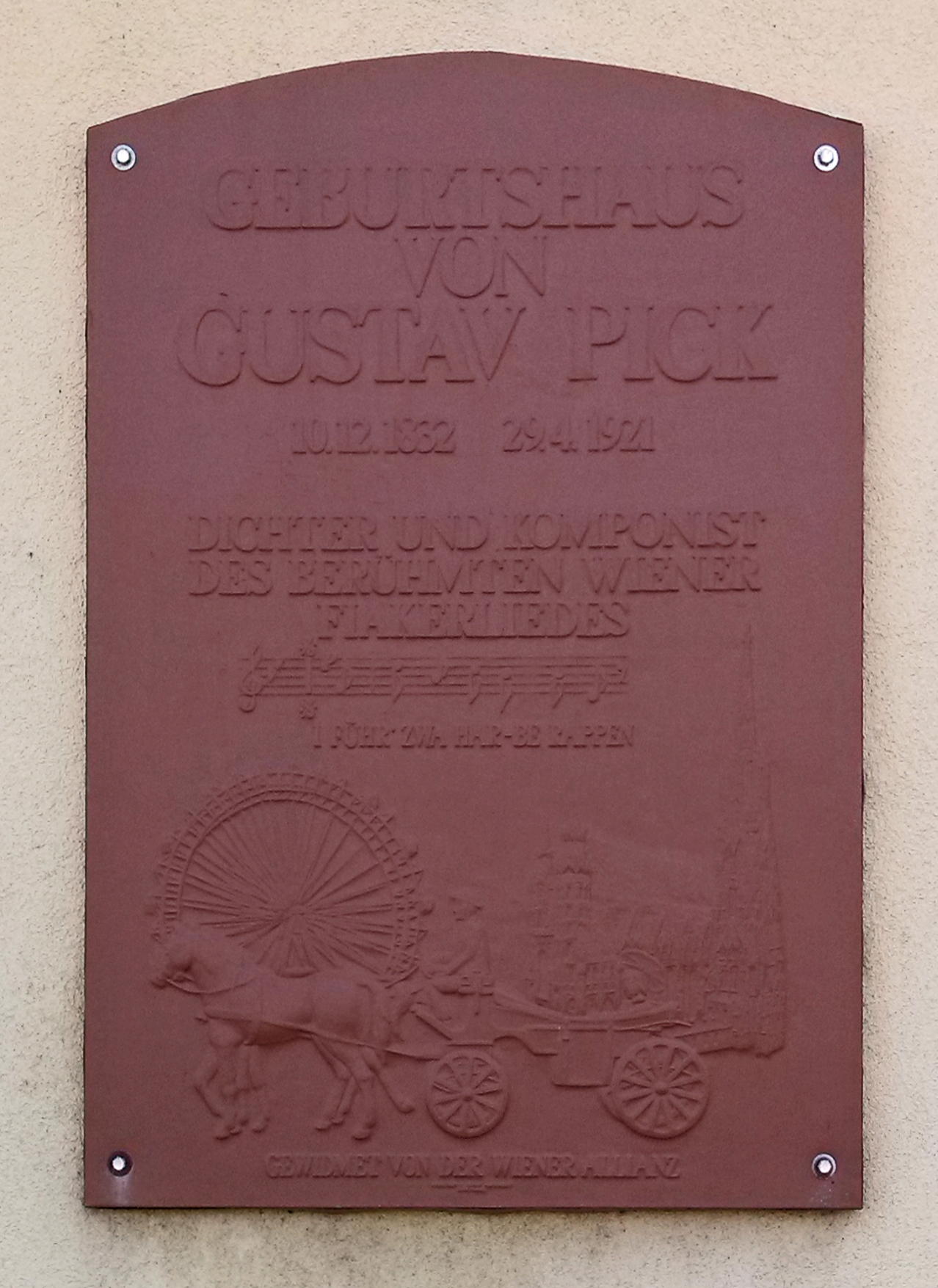 Memorial plaque at the birthplace of Gustav Pick, composer of the Viennese Fiakerlied, in Rechnitz, Schlossberggasse 2